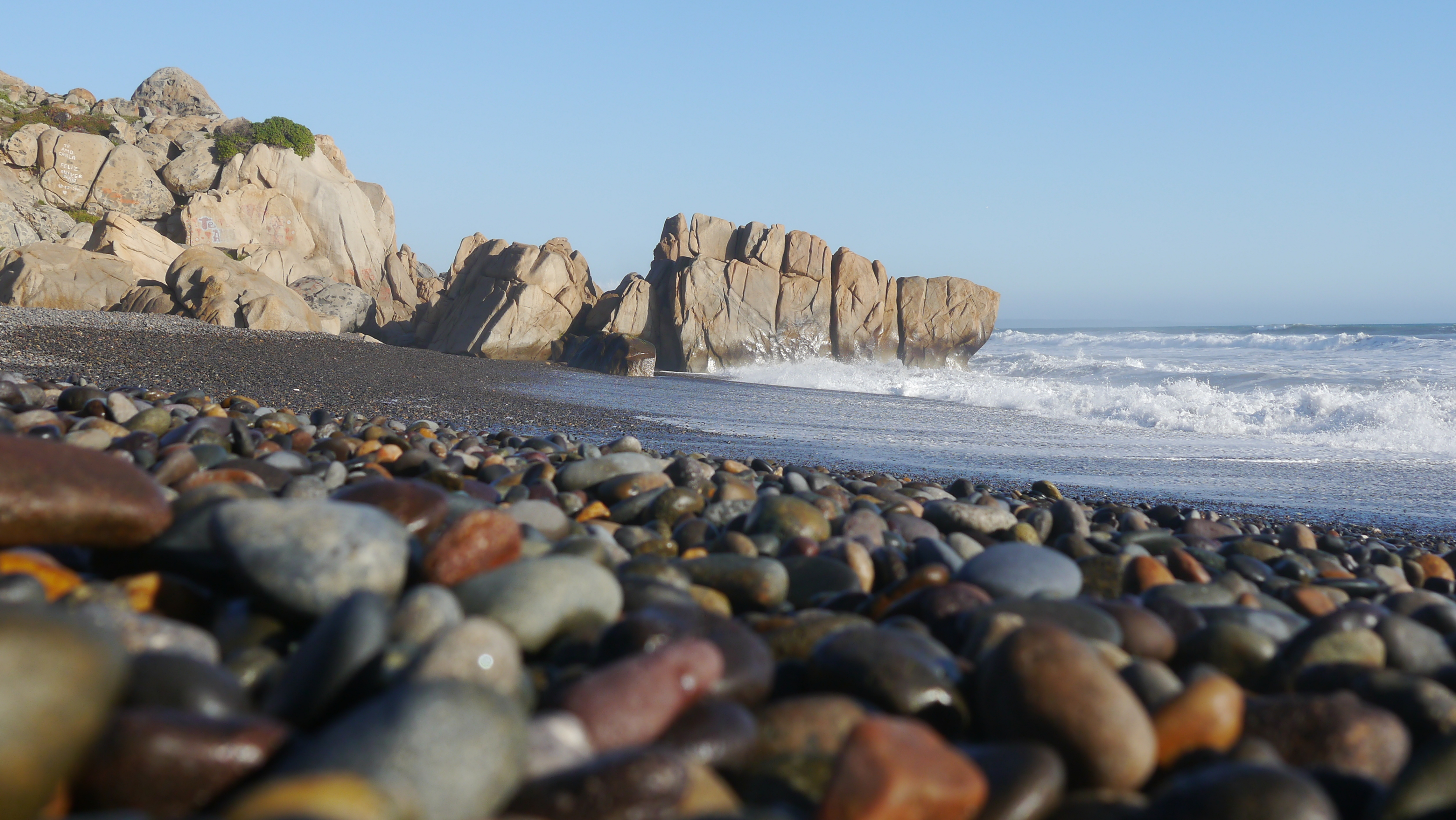 Rocas de Santo Domingo: playa